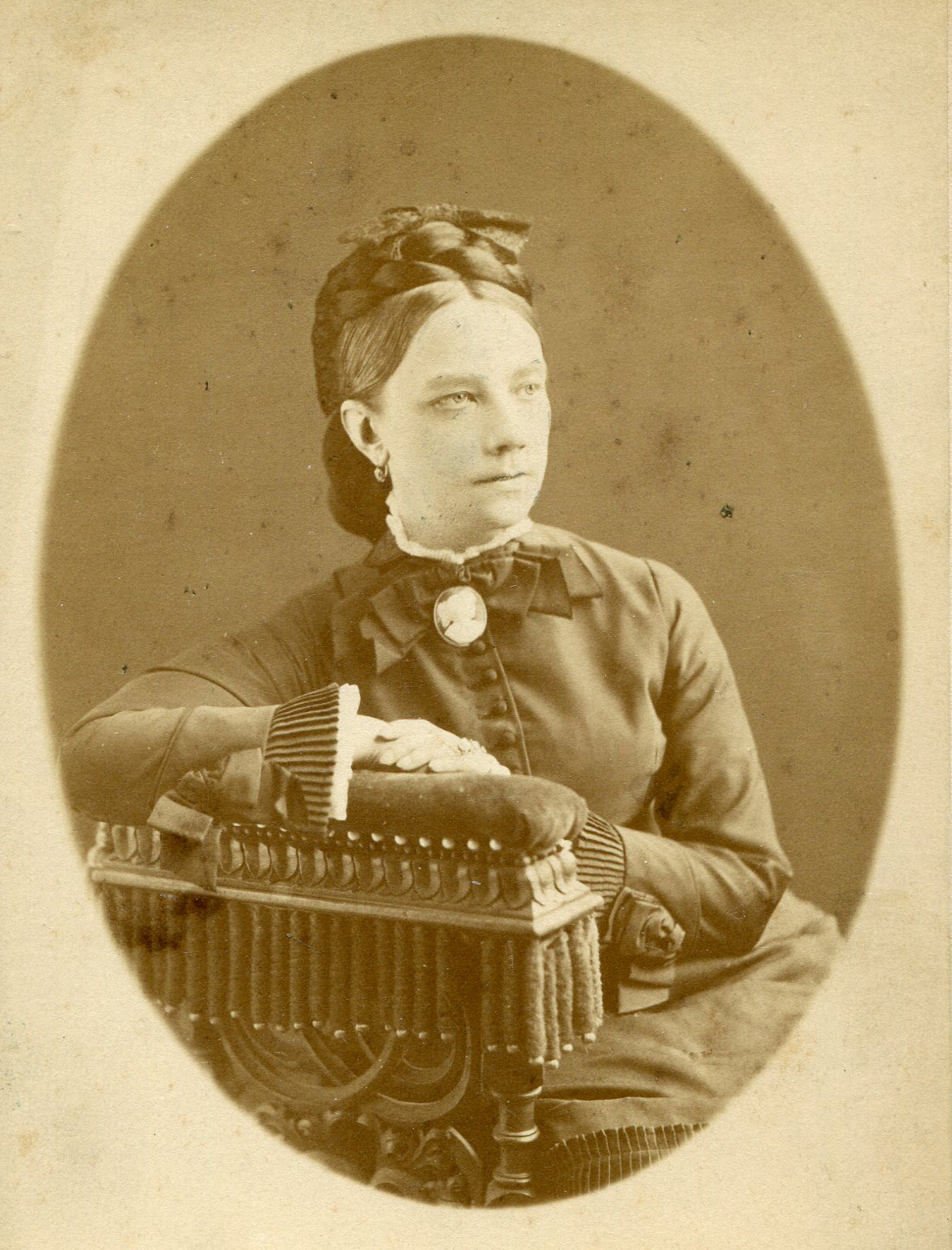 Mariya Aleksandrovna Yakushkina nee Bizeeva, the aunt of Ivan Shipov, who adopted him